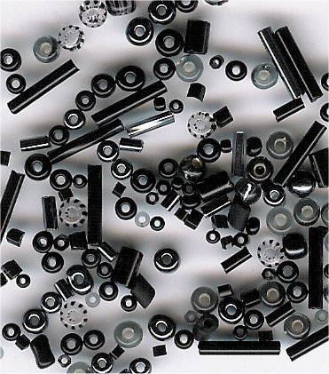 Seed beads, taken by me. User:pschemp 23:17, 28 January 2006 . . Pschemp (Talk) . . 371x421 (61961 bytes) (beads by me)